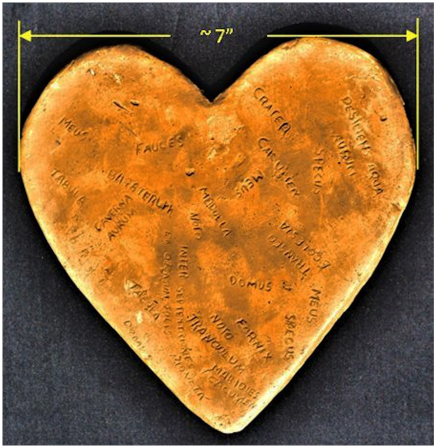 Obverse side of the Latin Heart